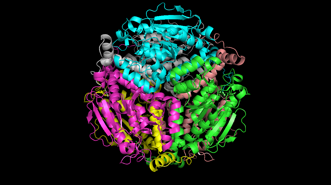 Cartoon structure of MenB generated from Pymol